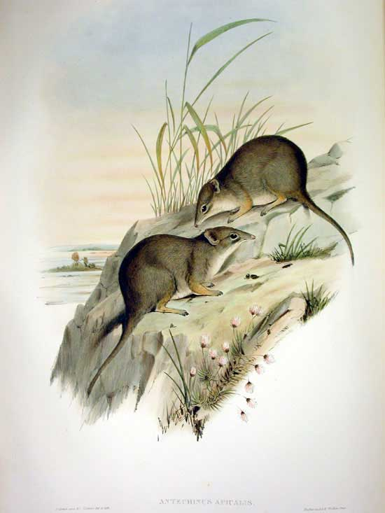 Parantechinus apicalis (orig. Antechinus apicalis)